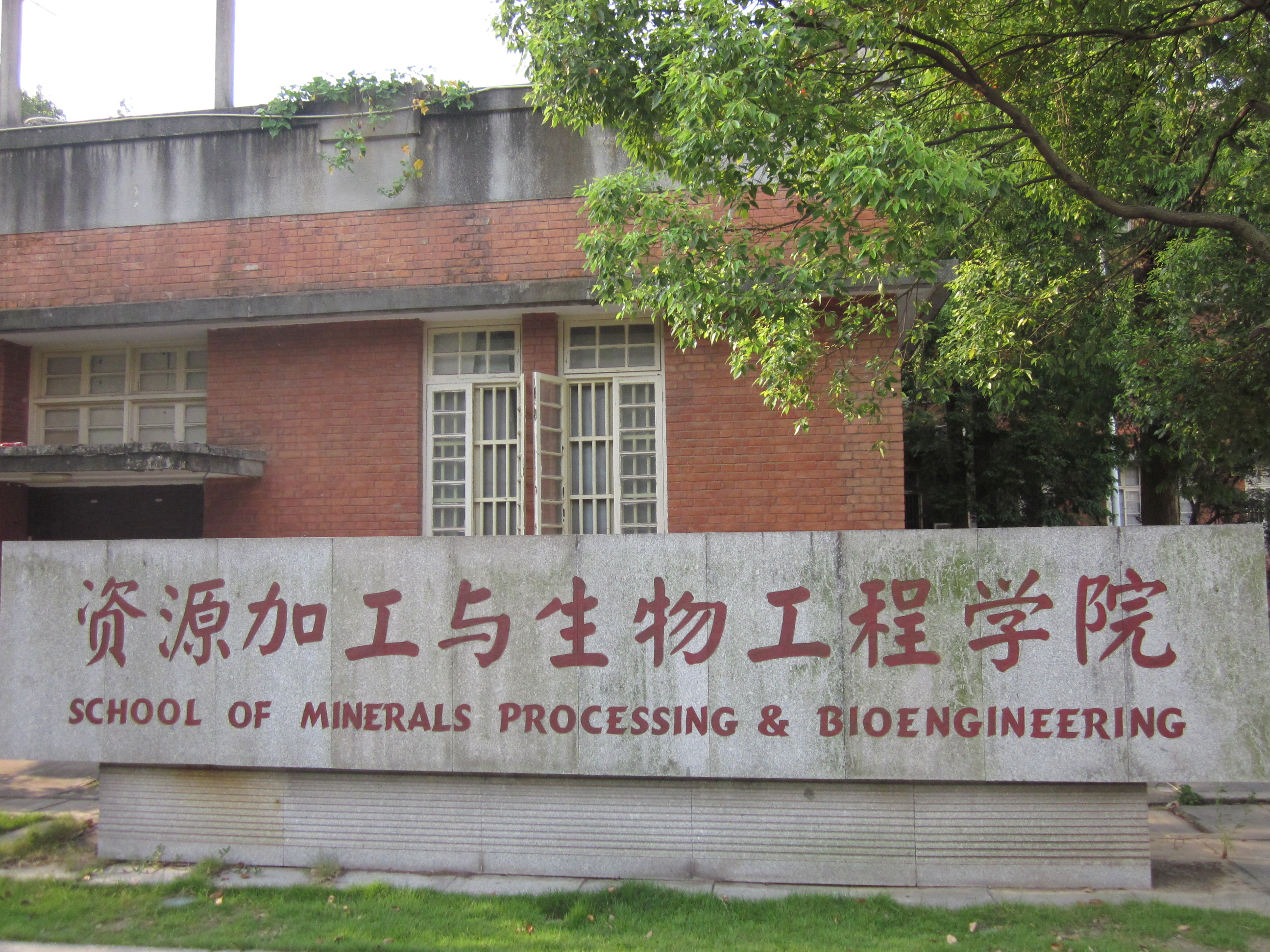 Central South University (CSU